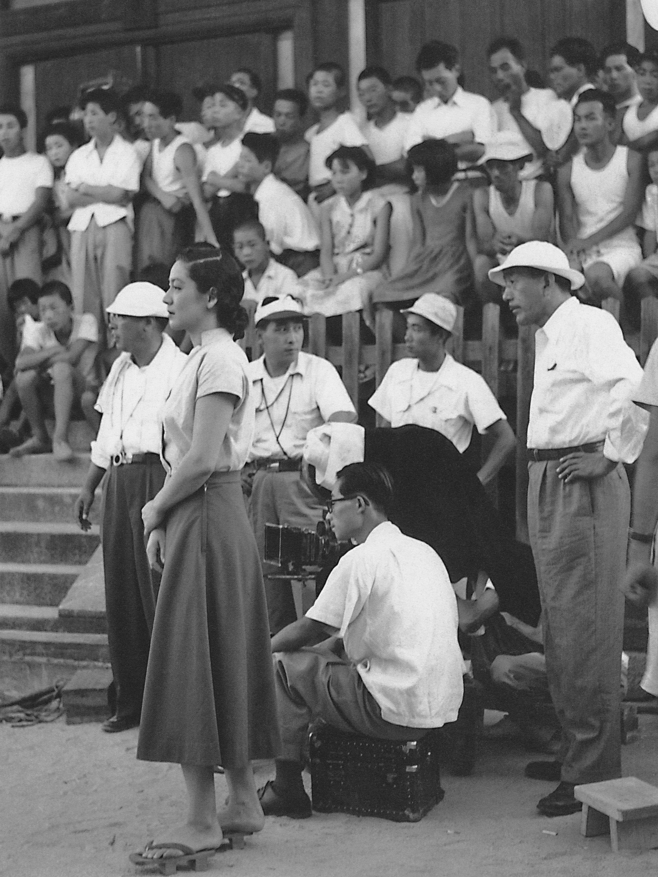 Actress Setsuko Hara (1920–2015, left) and director Yasujirō Ozu (1903–63, far right) filming Tokyo Story (1953).